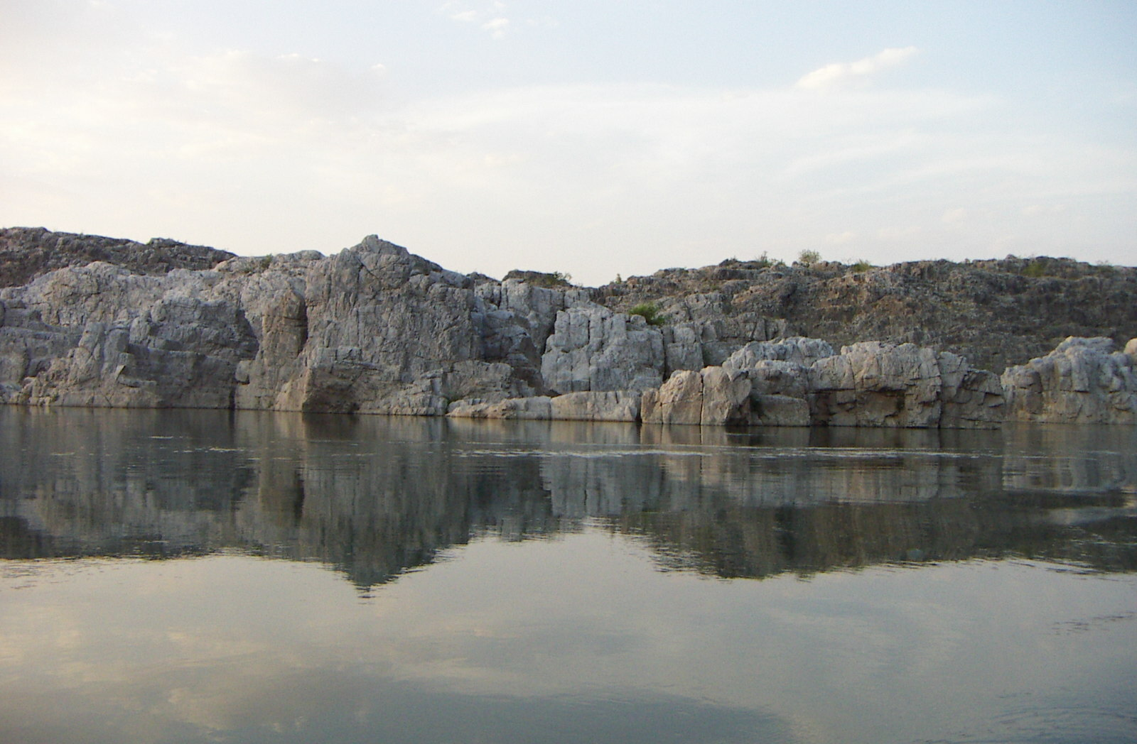 This photo is taken by me on April 6th 2006 from the Narmada River.